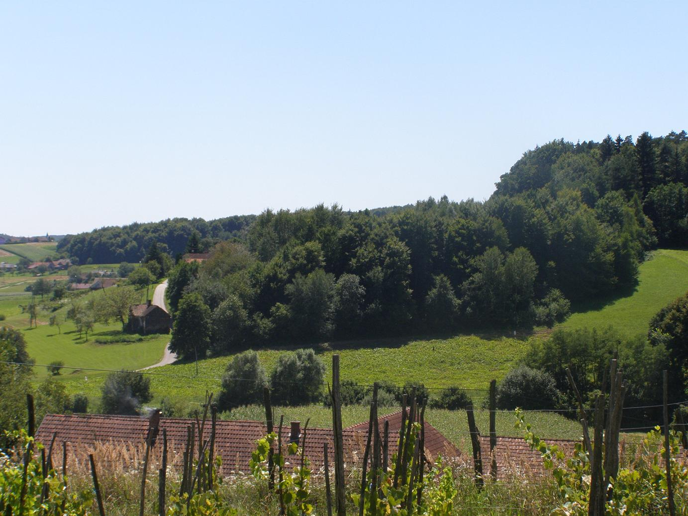 Kovačevci, prekmurian village